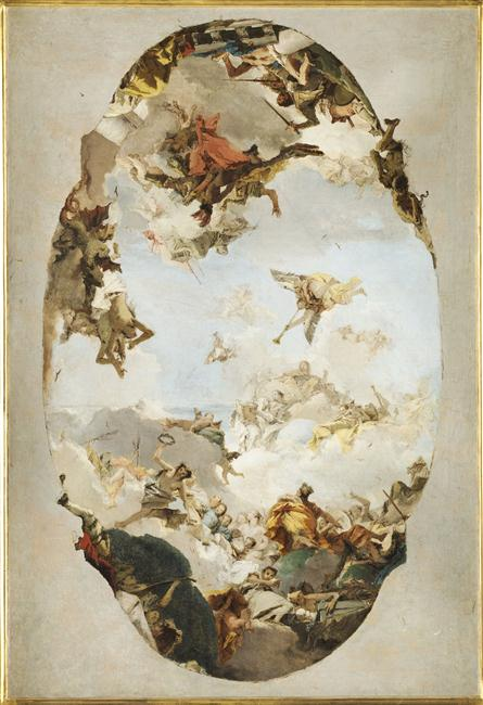 Apothéose de la maison Pisani